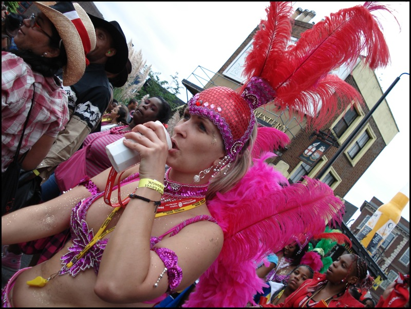 Notting Hill Carnival 2008 (London, UK)